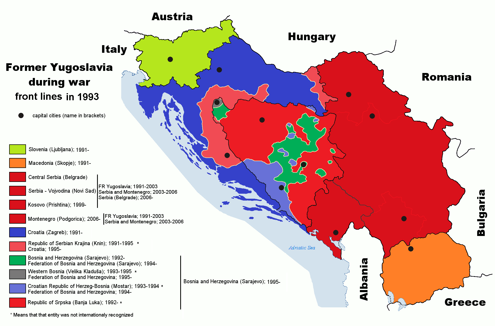 Map of former Yugoslavia during last wars. War political entities in Croatia and Bosnia-Herzegovia are marked